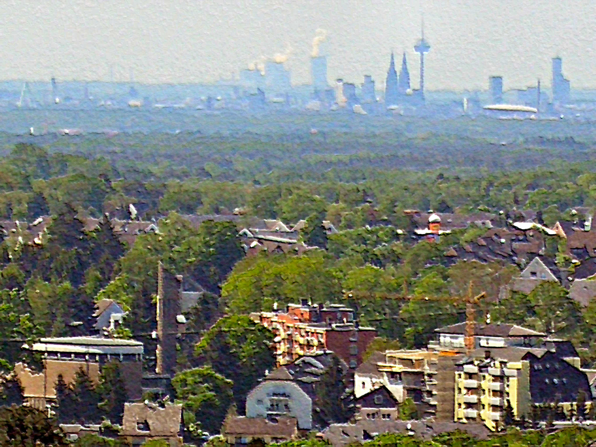 Rösrath near Cologne